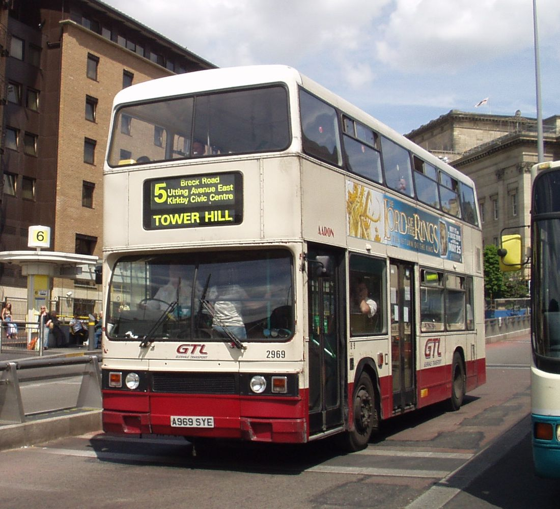 Glenvale Transport bus 2969 "Aaron" (reg. A969 SYE), pictured in Queen Square bus station, Liverpool. See the closeup image for further details on the vehicle's history.